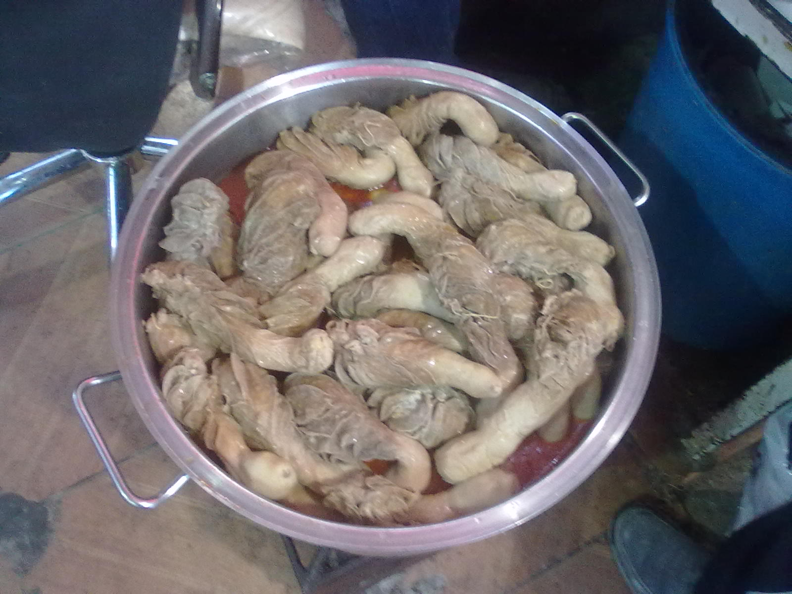 Şirdan is a part of the vegetarian digestive system.